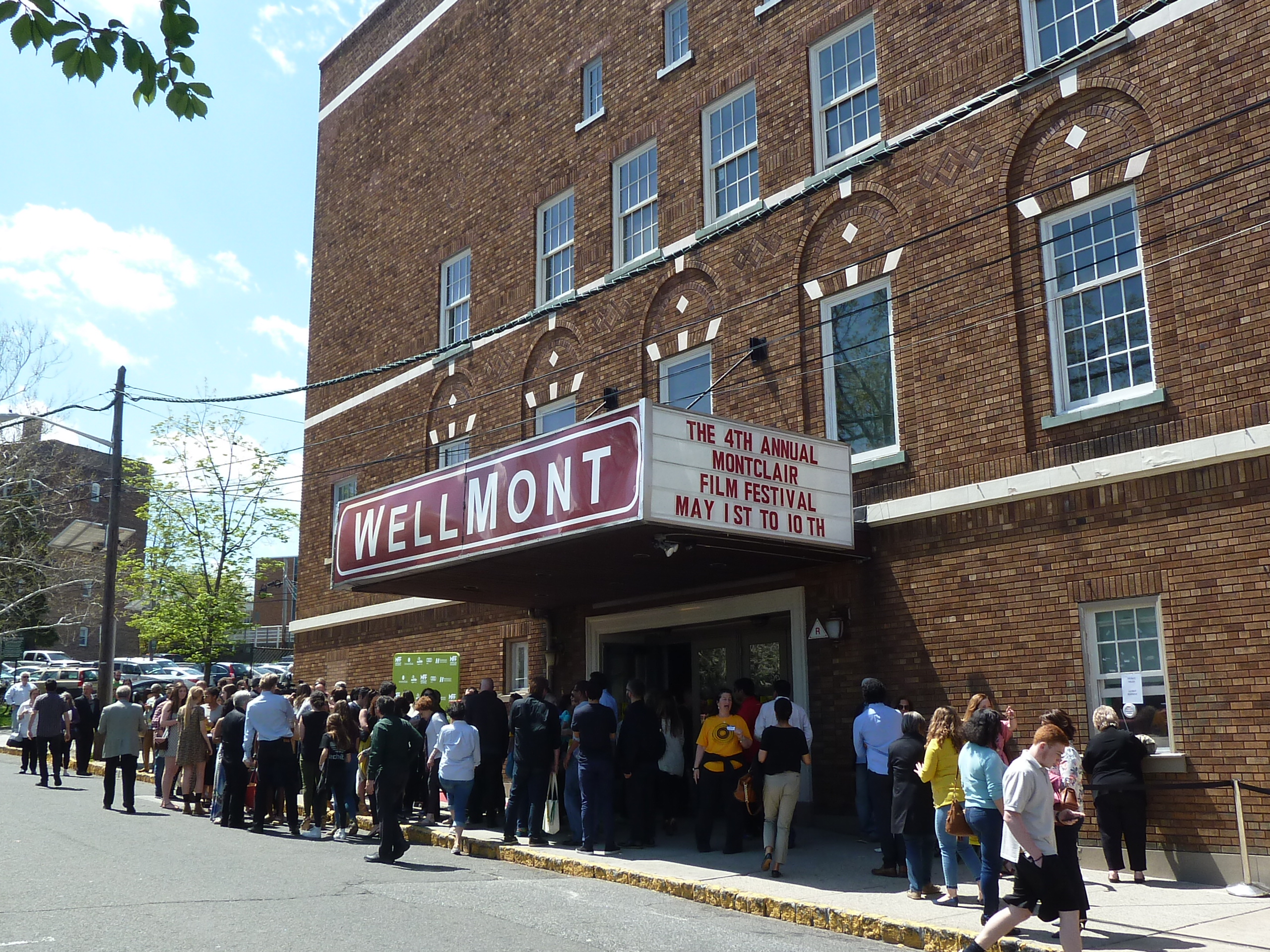 Wellmont Theatre, Montclair, NJ at MMF15